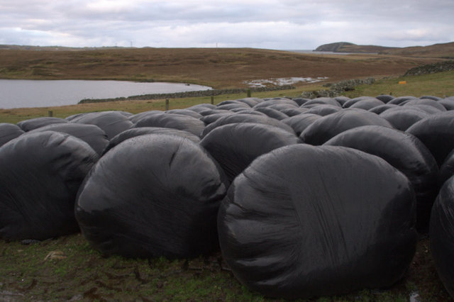 Silage bales, Belmont Farm Looking towards the north end of Loch of Belmont.